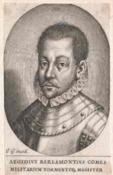 Gilles de Berlaymont, Stadtholder of several Provinces of the Spanish Netherlands (ca. 1540 - 1579)